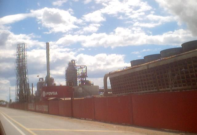 "El Palito" - PDVSA Refinery, Venezuela.